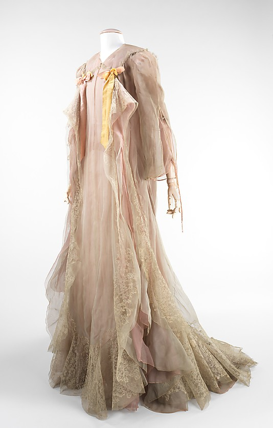 Negligée in the XIX. century